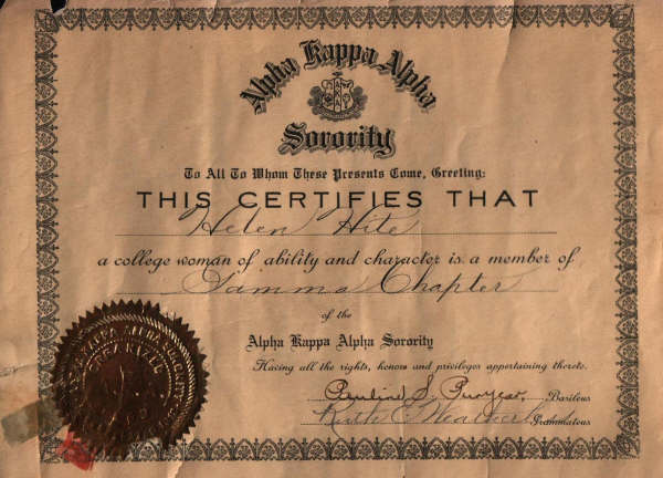 Alpha Kappa Alpha certificate of membership from 1921.